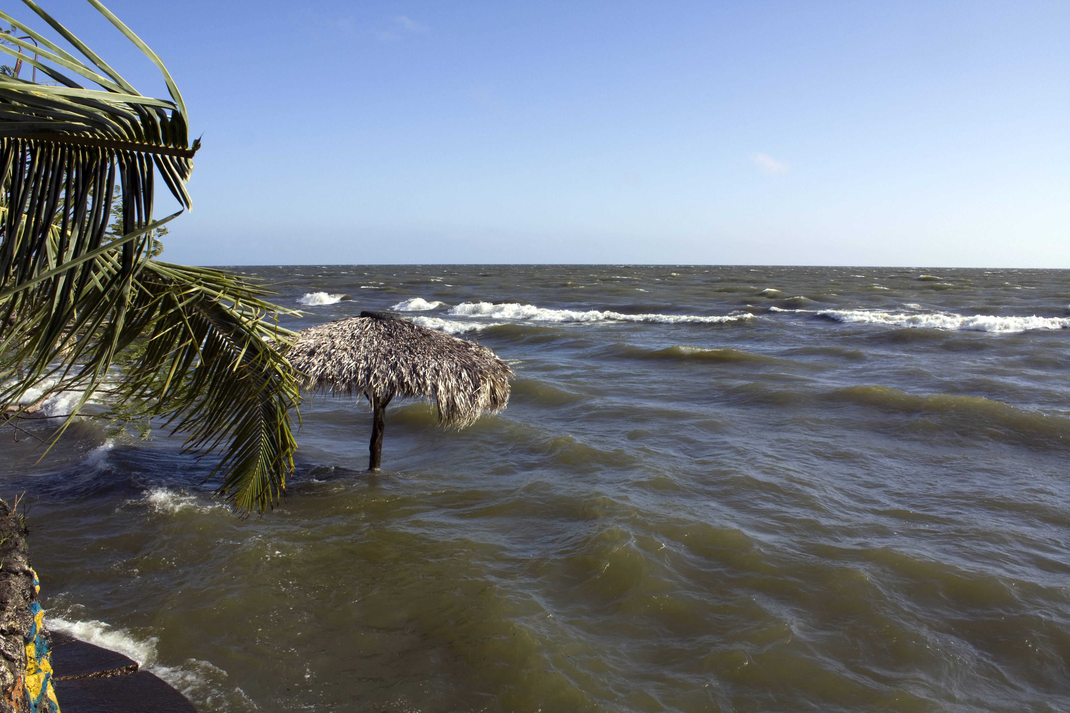 Flooded beach in Playa Santo Domingo, Isla de Ometepe, Nicaragua. View at the stormy Lake Nicaragua.